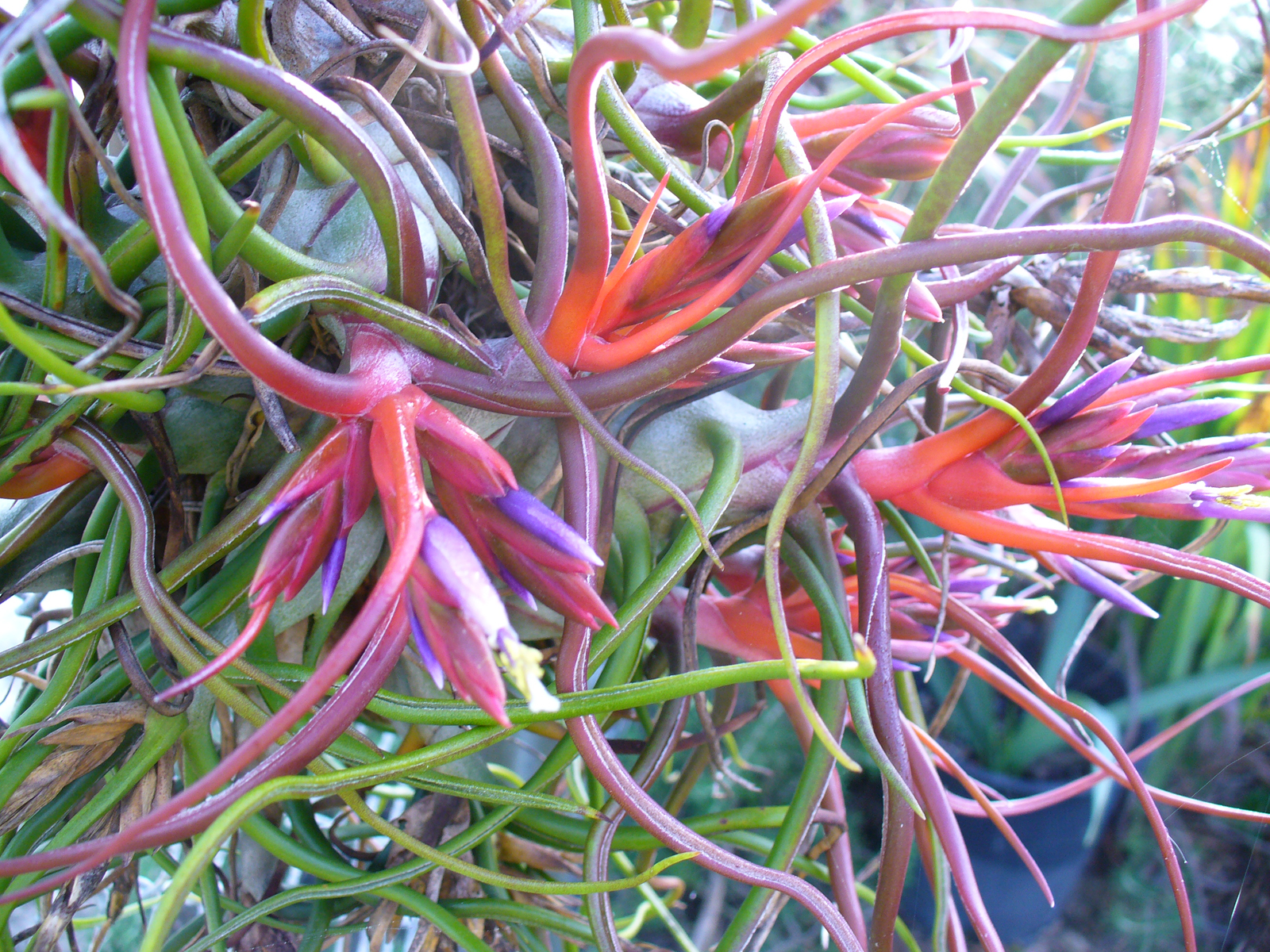 Tillandsia bulbosa in South Miami, FL, USA